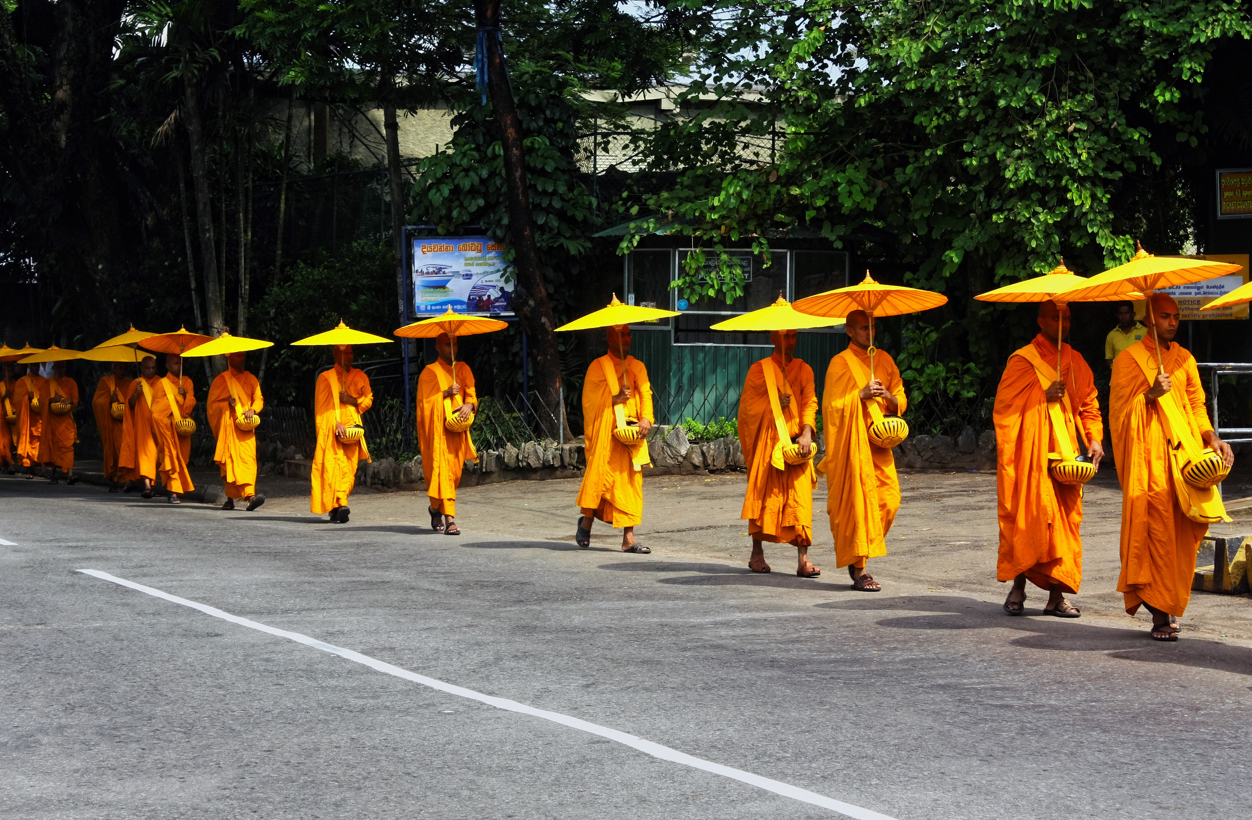 Buddhist monks in Sri Lanka